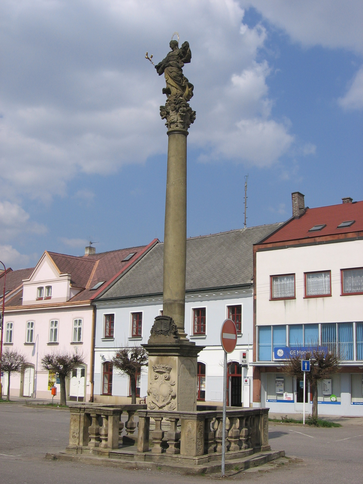 Marian Plaque Column at Palacký's Square in Kostelec nad Orlicí